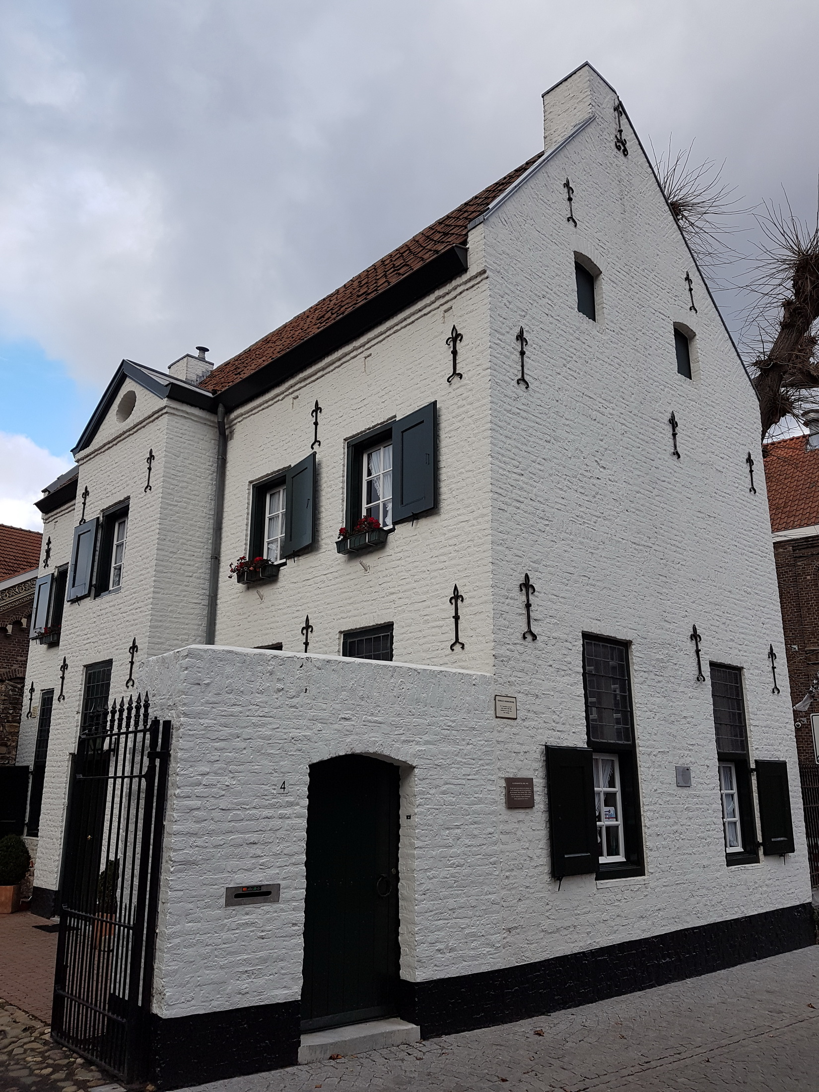 View of a former canon's house of the chapter of St. Peter in Sittard, the Netherlands.